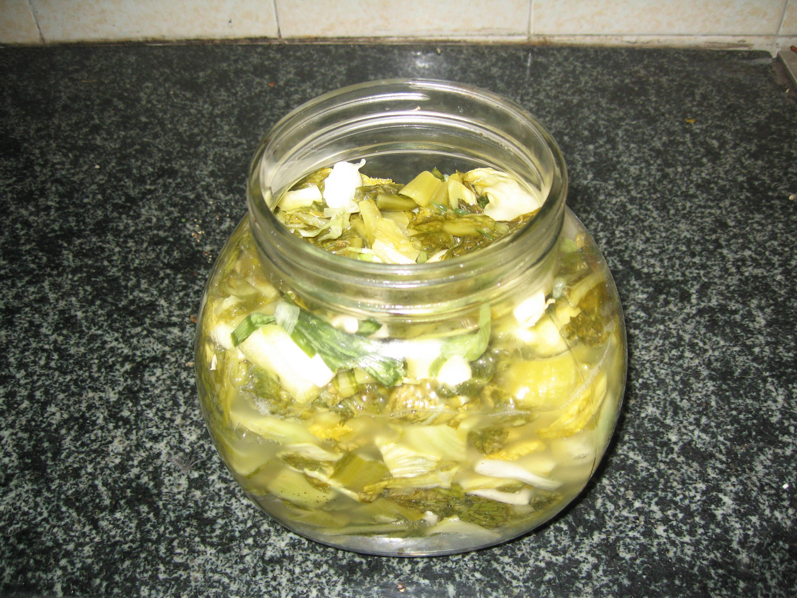 Pickled vegetables. This image taken by the missionaries.